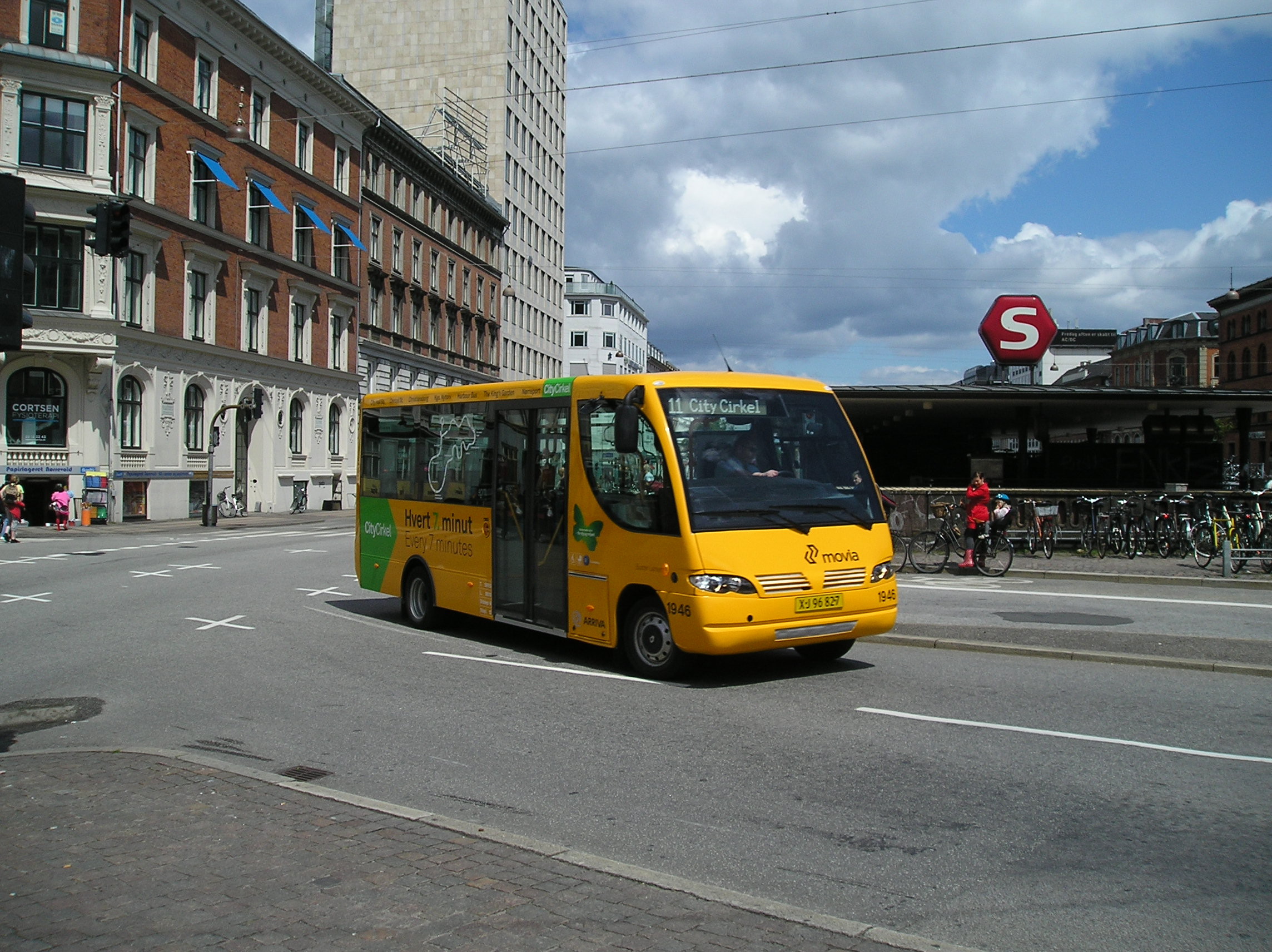 The bus line CityCirkel at Nørreport Station in Copenhagen.